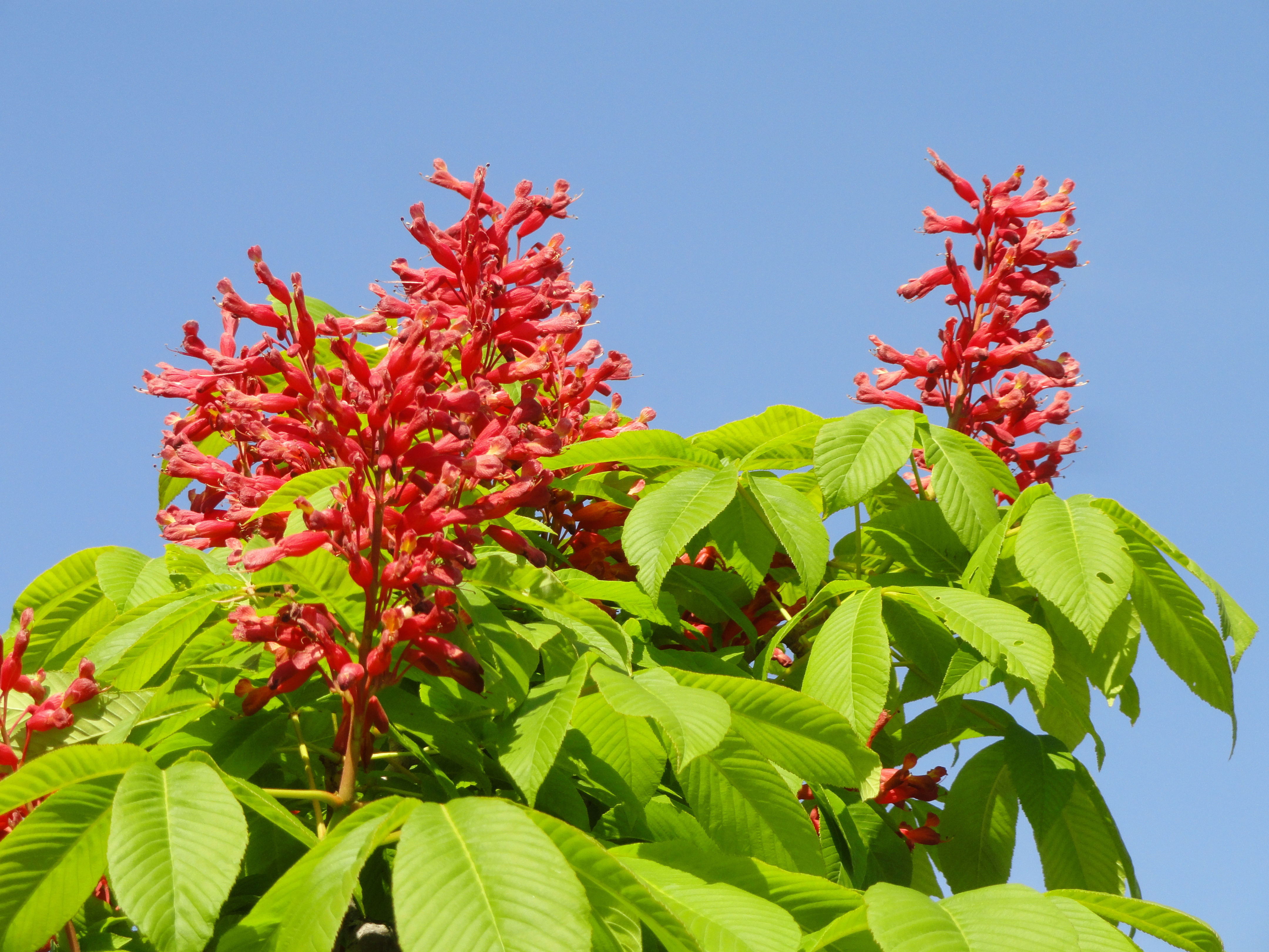 Aesculus pavia - United States Botanic Garden, Washington, DC, USA.